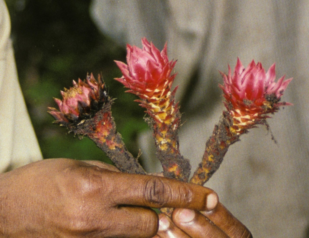 Thonningia sanguinea from west-central Nigeria